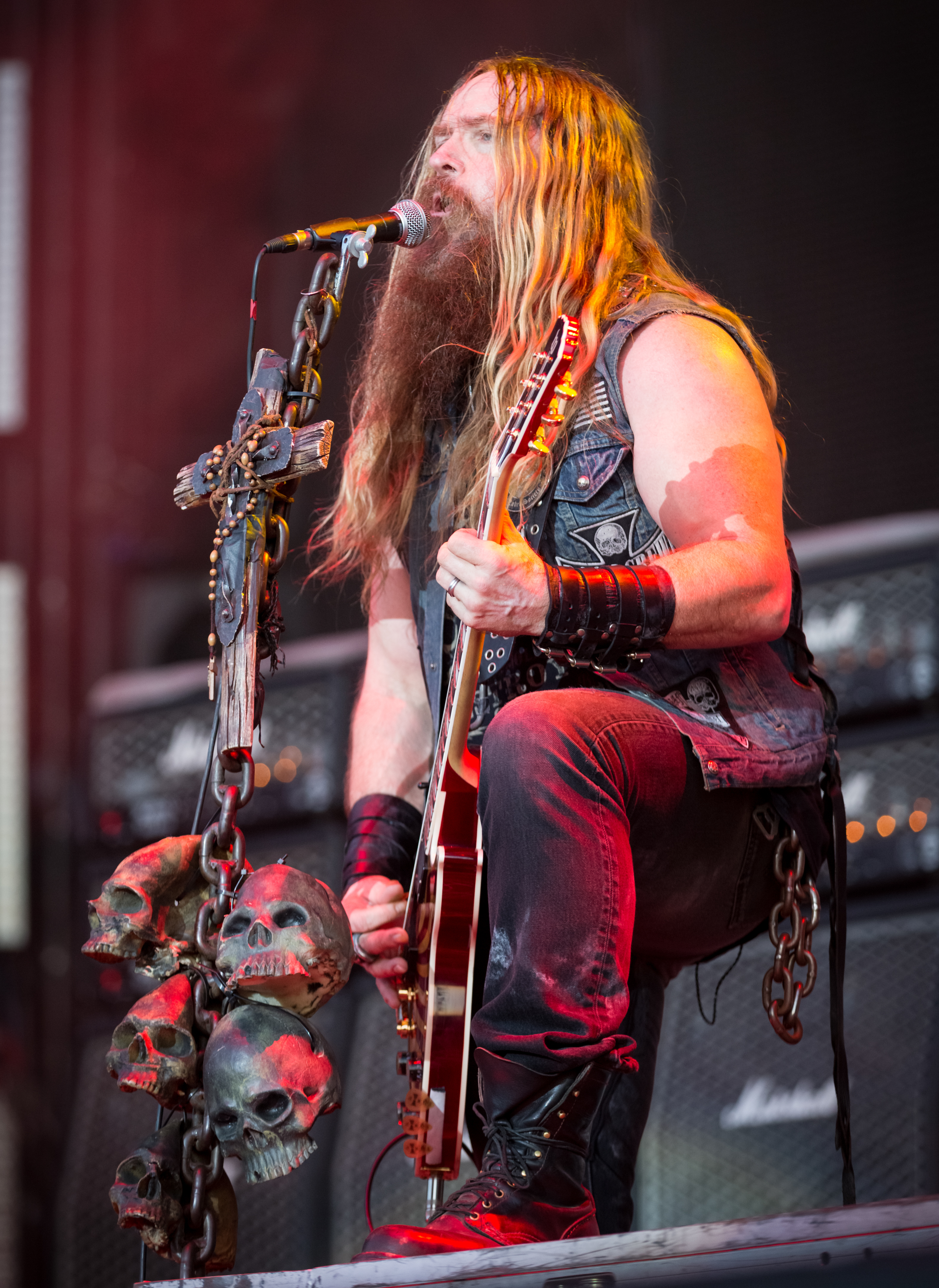 Black Label Society - Wacken Open Air 2015